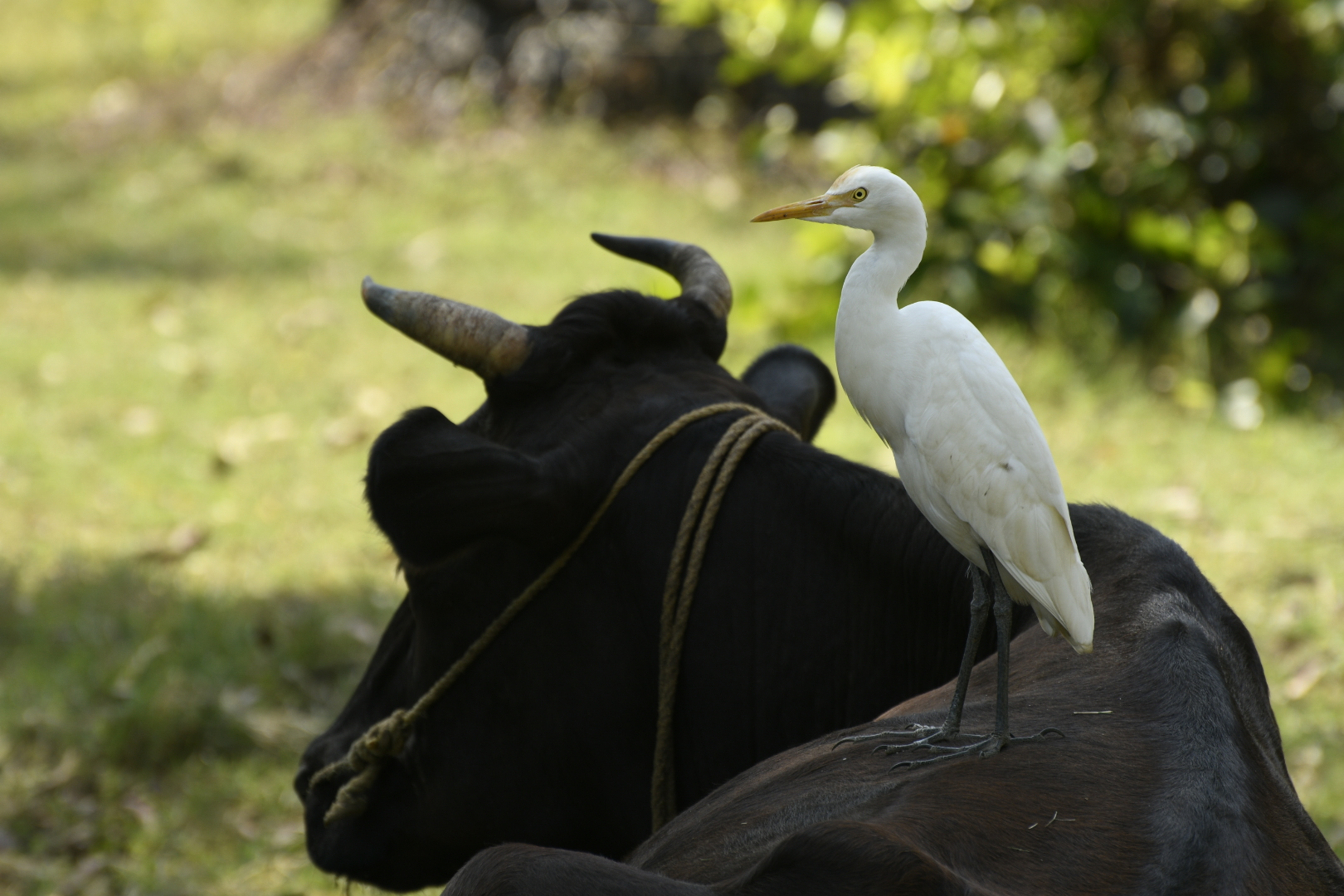 Common Egret species in Kerala